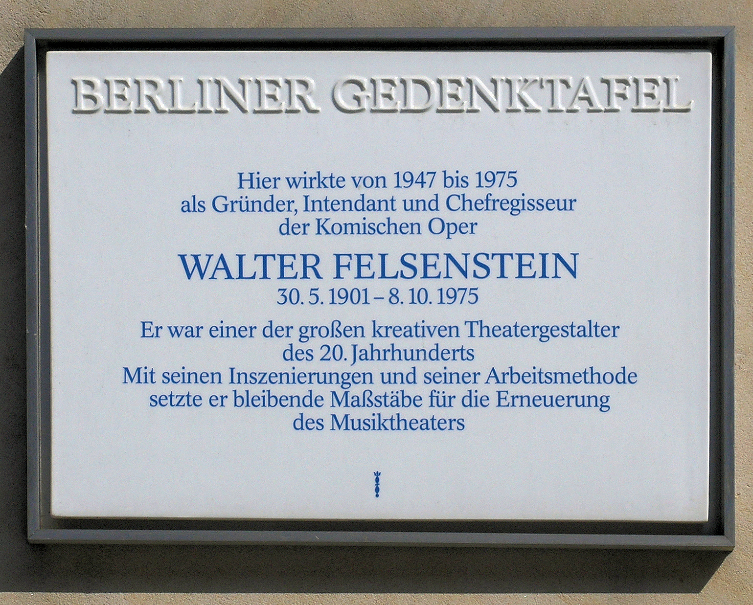 Berlin memorial plaque, Walter Felsenstein, Behrenstraße 55-56, Berlin-Mitte, Germany